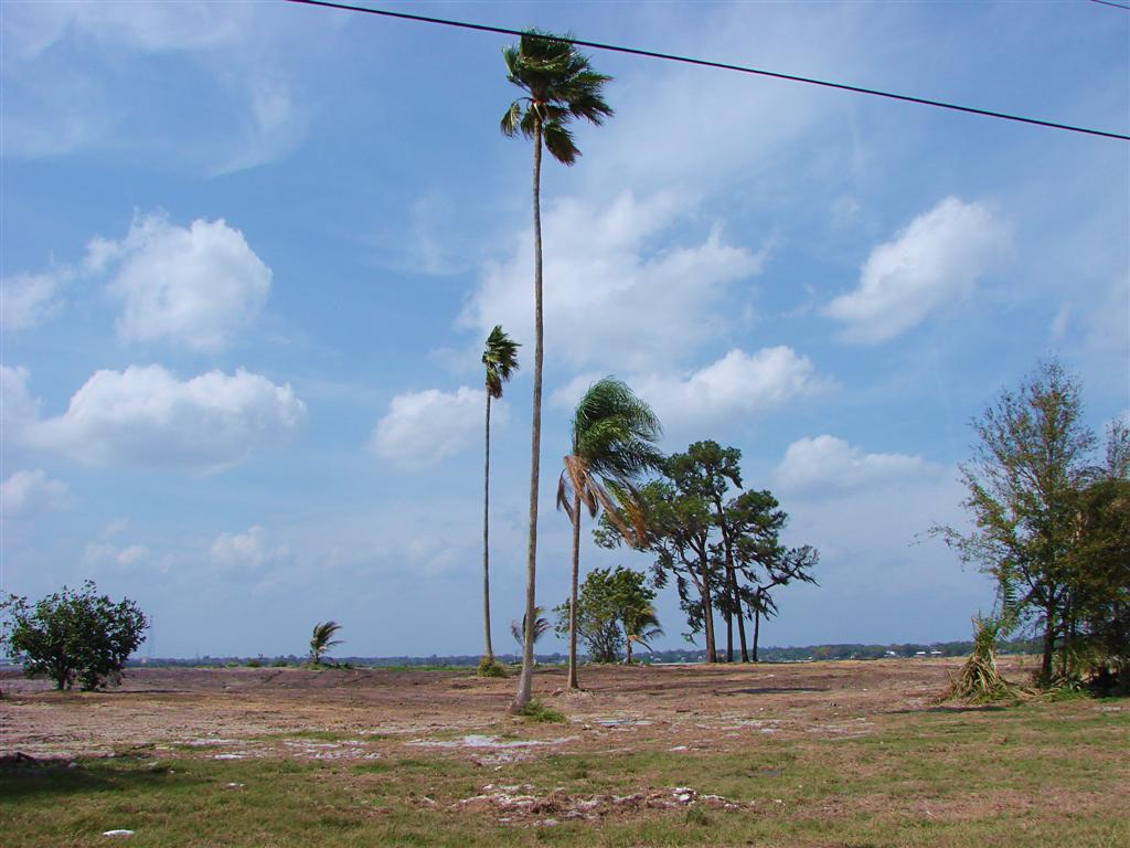 Site of the former Old Pinecrest Hotel, Avon Park, Florida. March 2, 2007.